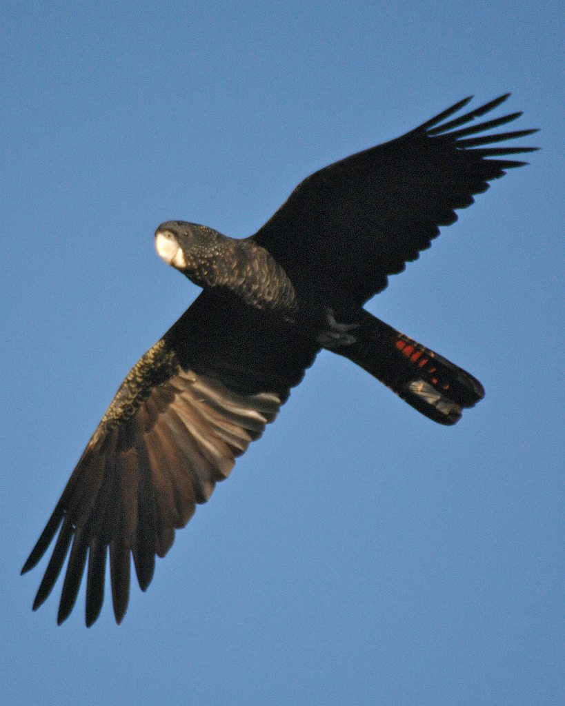 Female Red-Tailed Black Cockato in flight. Photographed by in Bourke NSW Australia.